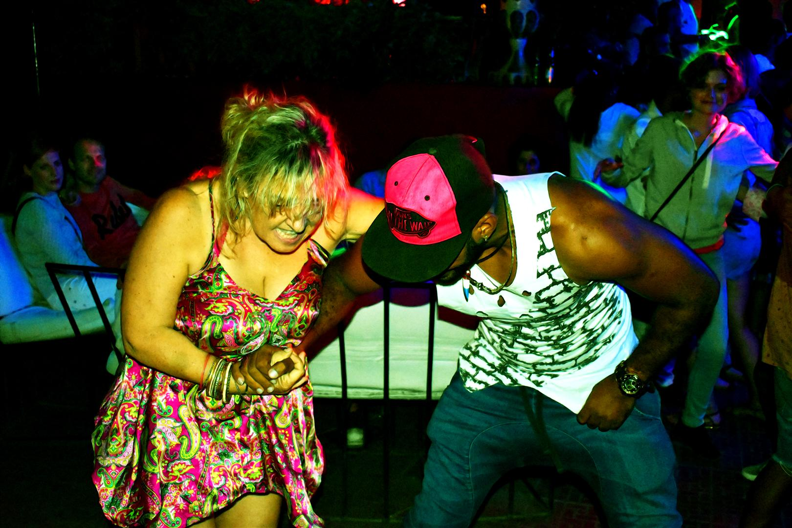 A great place to dance on Rosario street in the oldest side of Trinidad City. Open until 2am